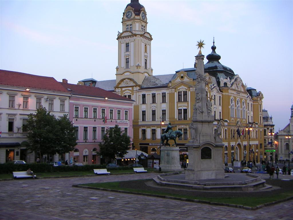 Photo: Bengt Olof ÅRADSSON